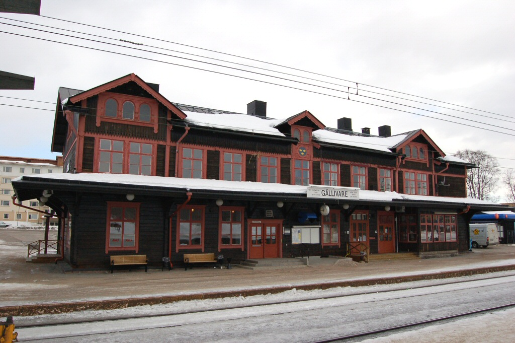 Gällivare railway station in Sweden.